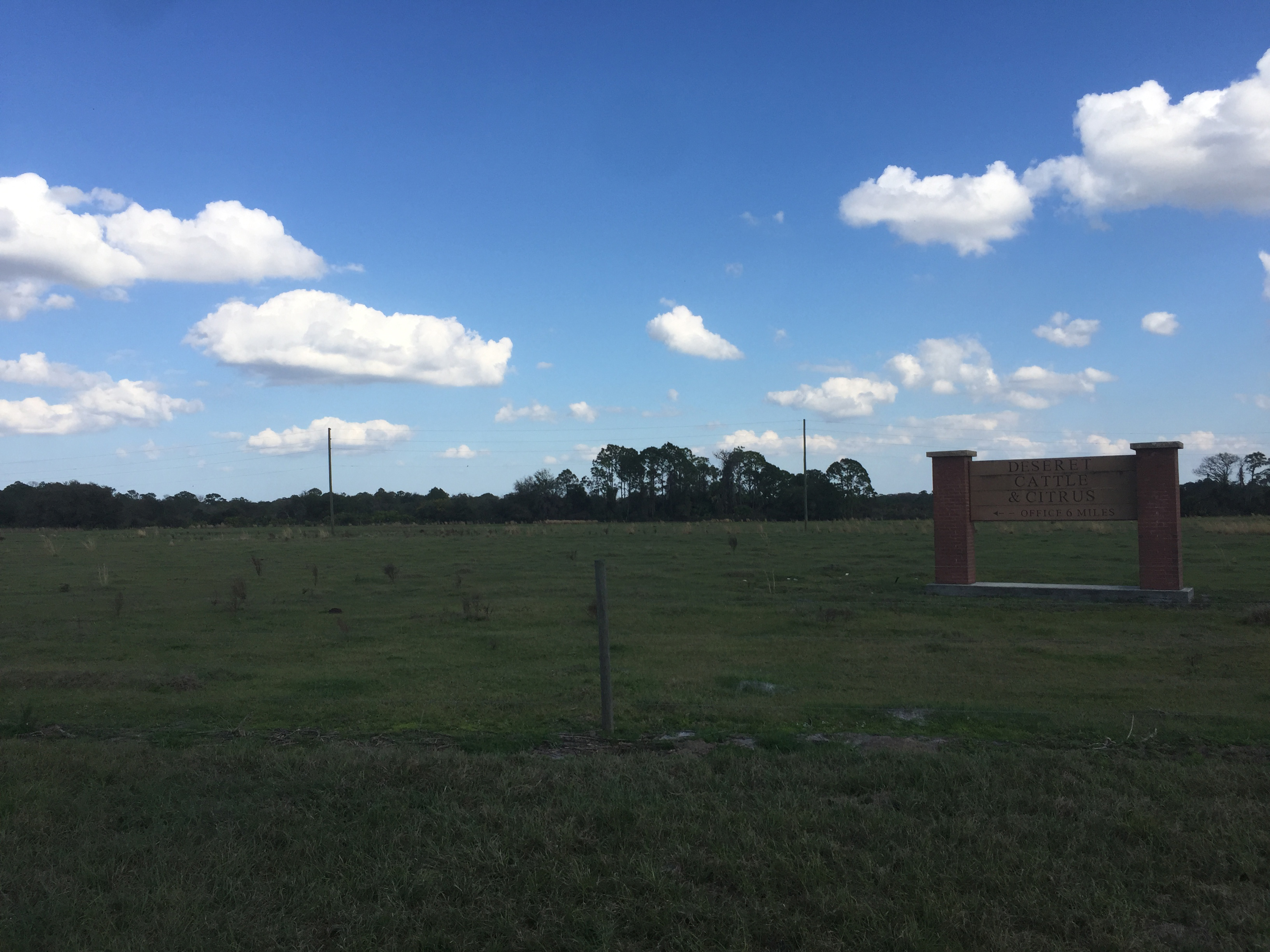 Deseret Ranch at the intersection of Deer Park Road and U.S. Route 192 / Florida State Road 500 (East Irlo Bronson Memorial Highway / Space Coast Highway) in St. Cloud, Florida in Deer Park.